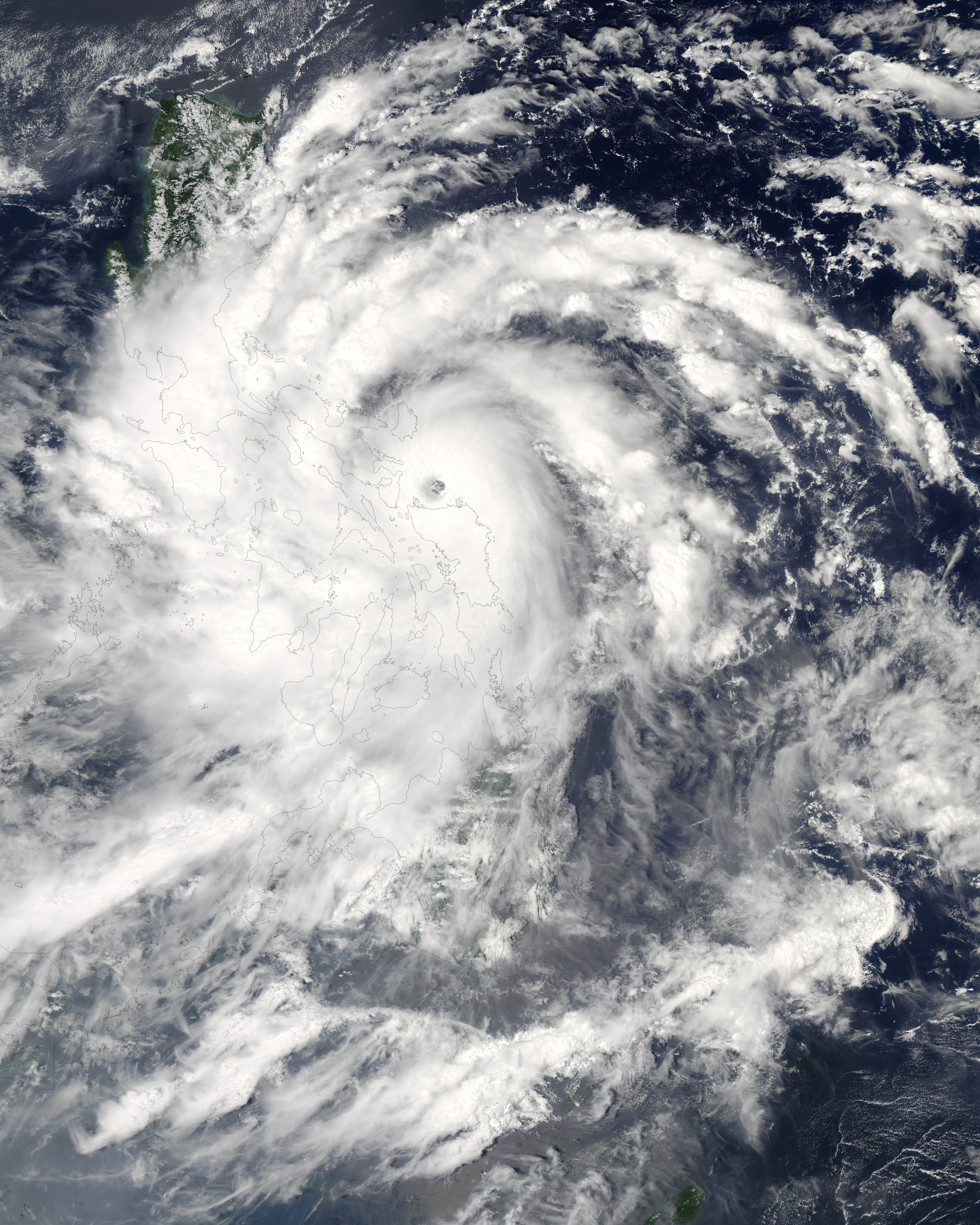 Typhoon Xangsane formed on September 25, 2006, in the western Pacific near the coast of the Philippine Islands. Over the next 36 hours, it grew from a tropical depression (area of low air pressure) to a typhoon. As of September 27, it was right on the eastern edge of the Philippines, with the eye of the storm sitting just offshore. Winds had reached 210 kilometers per hour (130 miles per hour) near the core of the storm, according to the University of Hawaii’s Tropical Storm Information Center. This photo-like image was acquired by the Moderate Resolution Imaging Spectroradiometer (MODIS) on the Terra satellite on September 27, 2006, at 1:00 p.m. local time (05:00 UTC). Xangsane at the time of this image was a well-defined, spiraling swirl of clouds, with a distinct, but cloud-filled (“closed”) eye. The arm structure was not tightly wound, a trait of a moderately young storm. According to news reports, the Philippine Coast Guard had suspended ferry traffic at ports across the region due to strong winds and high waves, leaving thousands of passengers temporarily stranded. Heavy rains triggered flash flooding that had trapped perhaps 100 families in their homes in the central Philippines. Storm track projections on September 27 suggested that the typhoon would lose power as it crossed the islands and rebuild only slightly as it continued west across the South China Sea. The storm was predicted to come ashore on the Asian mainland in central Vietnam on or around October 2. The high-resolution image provided above is at MODIS’ full spatial resolution (level of detail) of 250 meters per pixel. The MODIS Rapid Response System provides this image at additional resolutions.